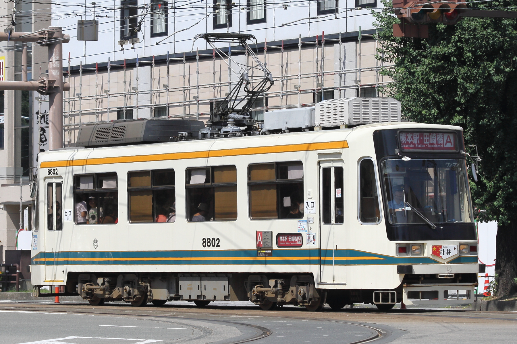 Kumamoto City tram No.8802